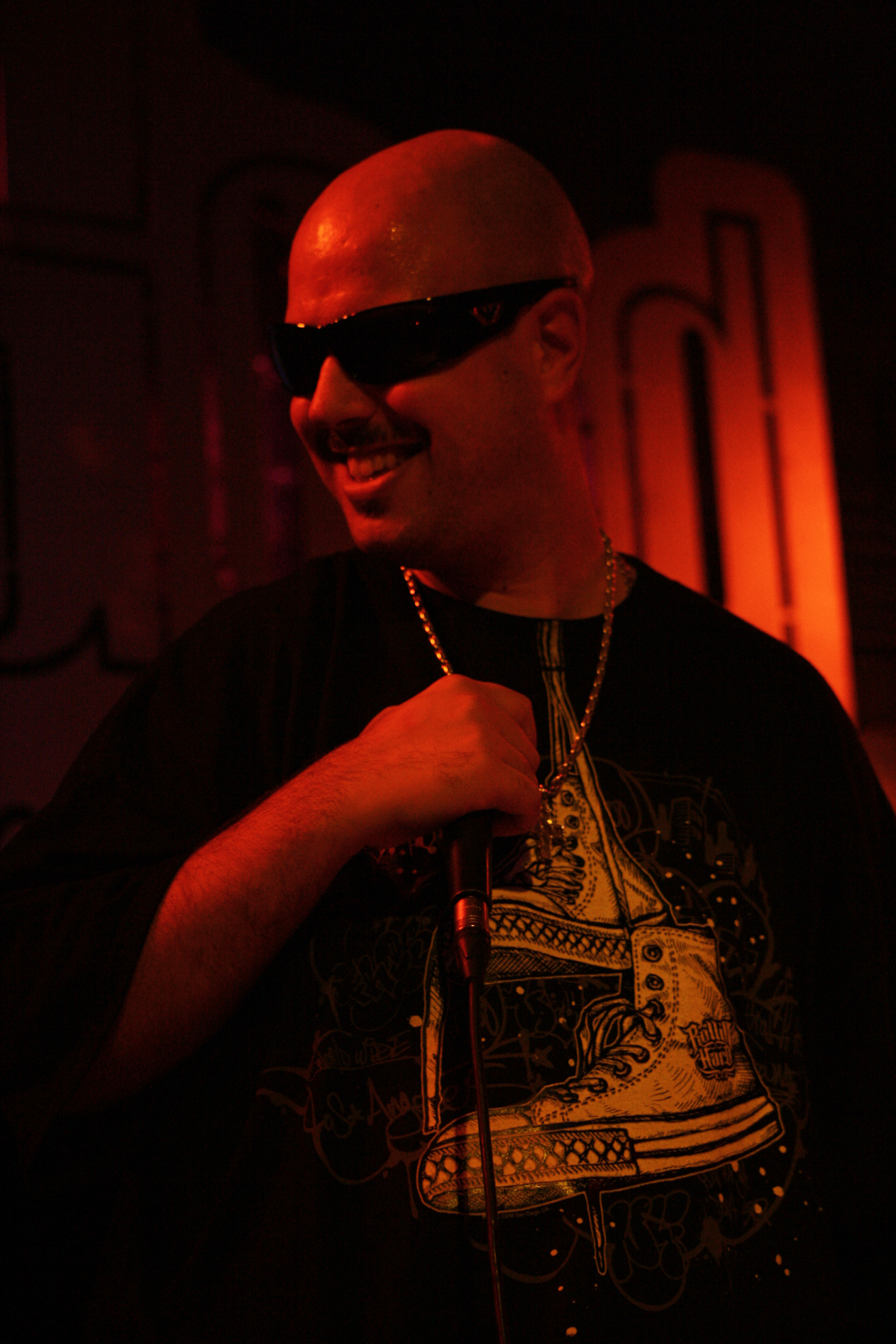 Mitsuruggy